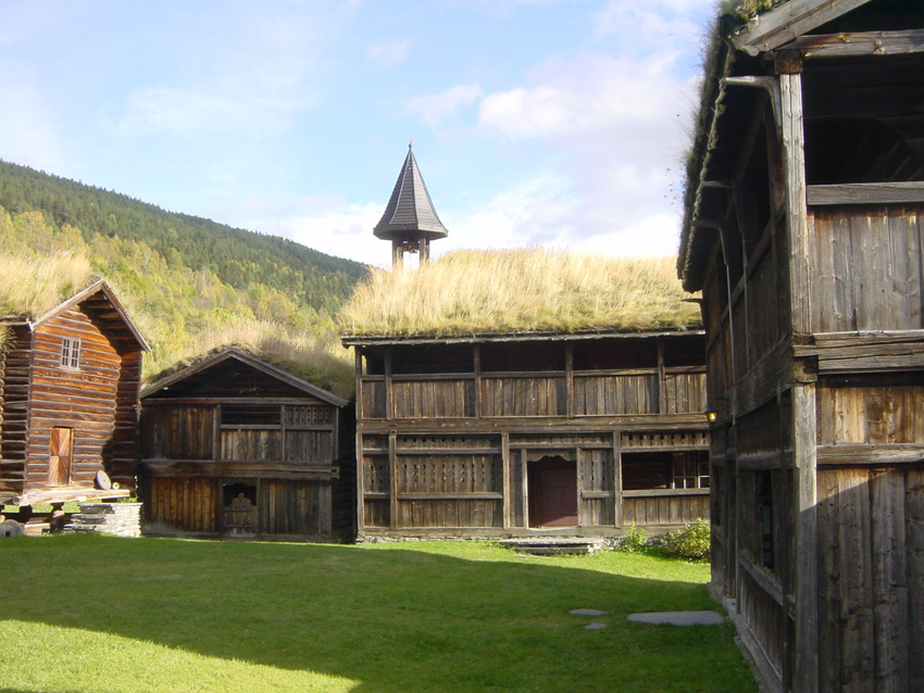 Farm buildings in Heidal, Gudbrandadal, Norway